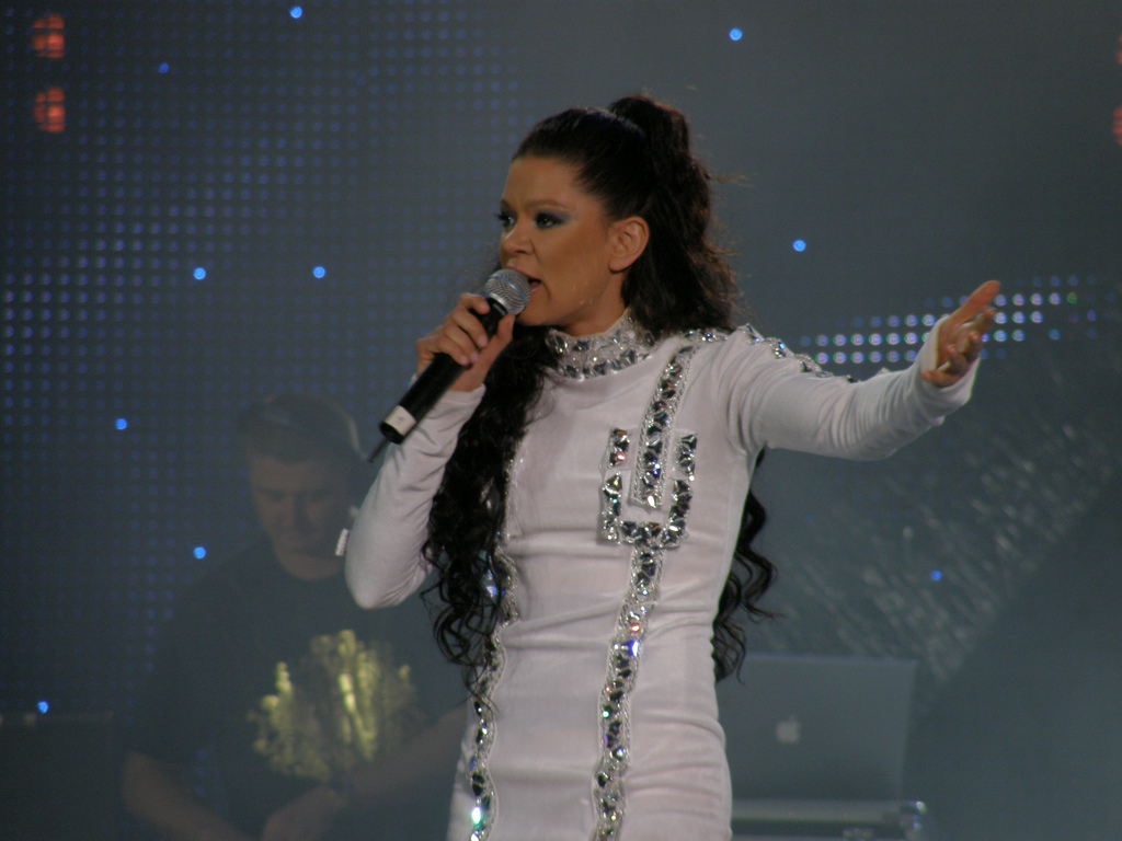 Ruslana at Cerbul de Aur 2008.